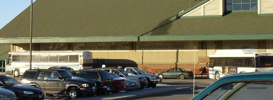 The William F. Walsh Regional Transportation Center in Syracuse, New York, which is served by Amtrak trains, as well as Greyhound, Trailways, and CENTRO buses.